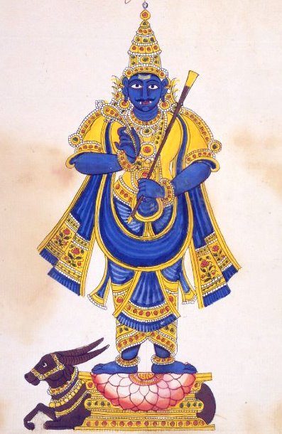 "Album painting. Painted on paper. Yama with fangs, holding a danda. Standing on a lotus covered Dais, behind which lies a buffalo. Inscribed and dated."